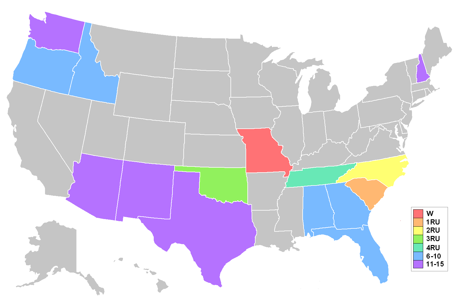 Map showing placements at the Miss USA 2004 pageant. Key on graphic shows colour coding for break down of placements.